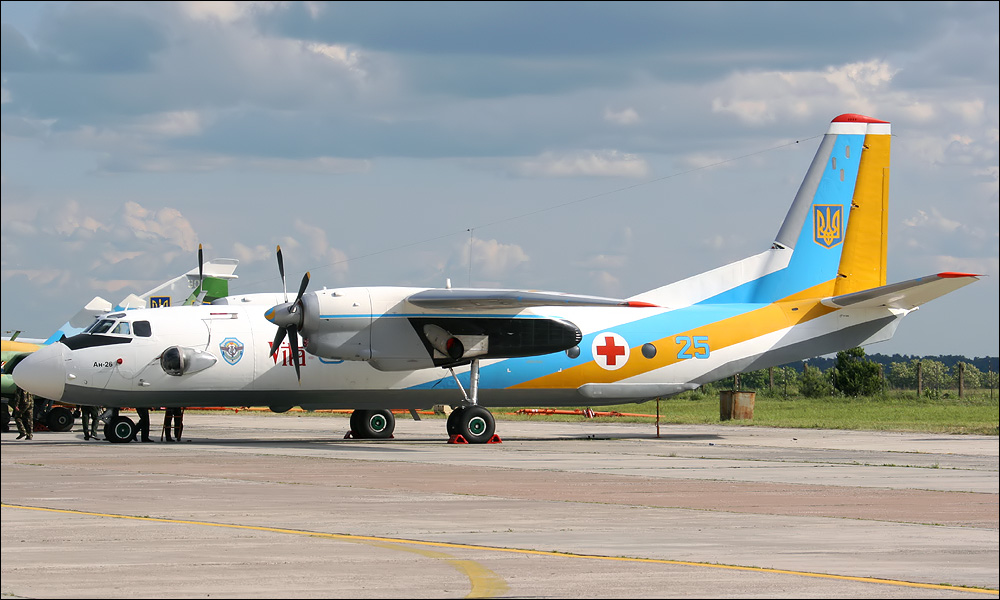 Antonov An-26